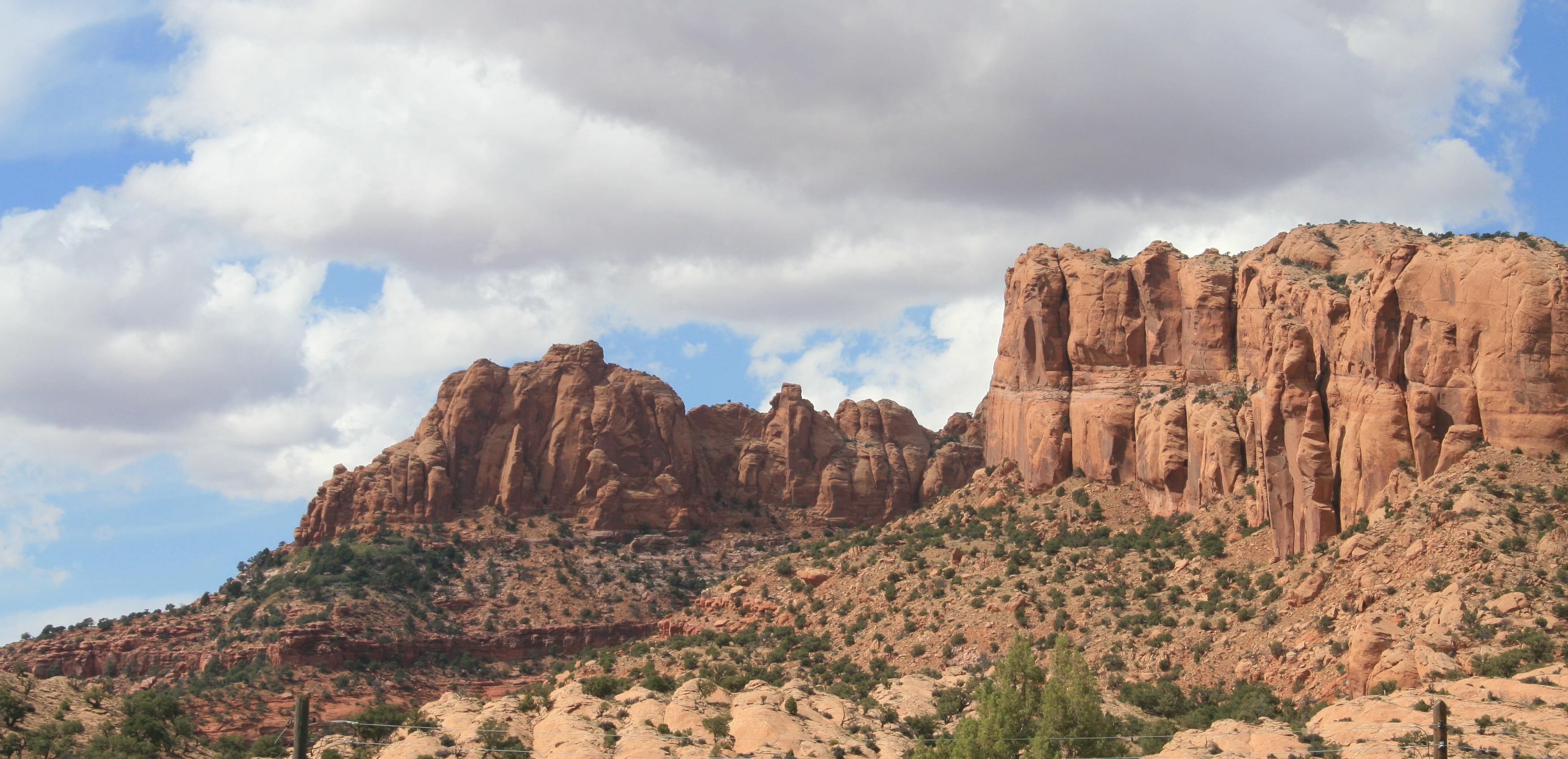 Tsegi, Navajo County, Arizona Tsegi Canyon rock formation — view north from the U.S. Route 160 in Tsegi, Navajo County, Arizona.